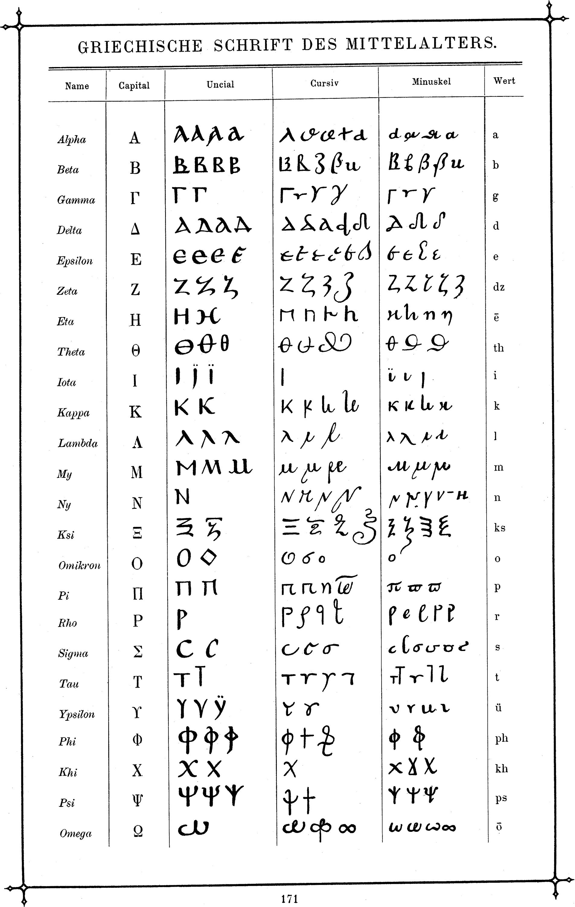 Page 171 from Carl Faulmann, Das Buch der Schrift, 2nd edition, Wien (Vienna) 1880. This page from Faulmann’s book shows the “Griechische Schrift des Mittelalters”, i.e. Greek medieval script letters (the uncial, a cursive and the minuscle type) as used in old manuscripts. For a biography of Carl Faulmann, see the German Wikipedia. I have scanned the page at rather high resolution so it should be possible to print it in reasonable quality (300 ppi at more or less 100% of the original size).